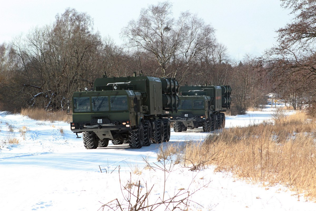 Bal coastal missile system.